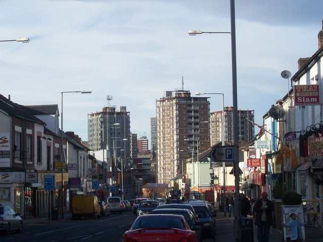 London Rd. London Road looking towards the city centre. The tower blocks are being refurbished and are to be fitted with insulating cladding.